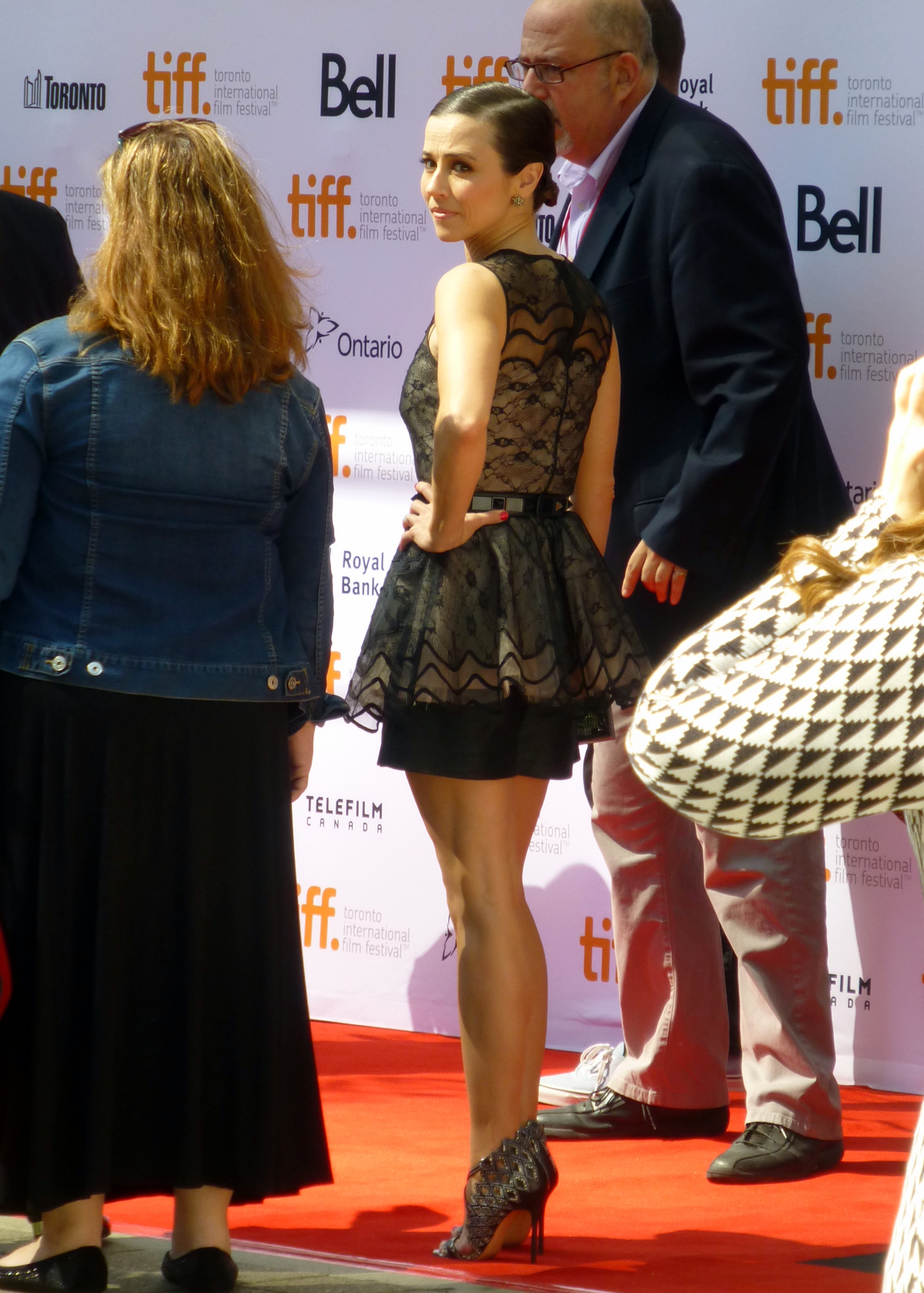 Linda Cardellini at the premiere of Welcome to Me, Toronto Film Festival 2014